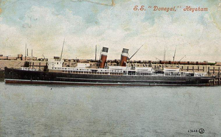 SS Donegal, built as a Midland Railway ferry in 1904 and sunk as an ambulance ship in 1917